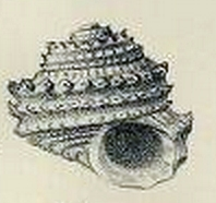 Liotia echinacantha Melvill & Standen, 1903; family Liotiidae